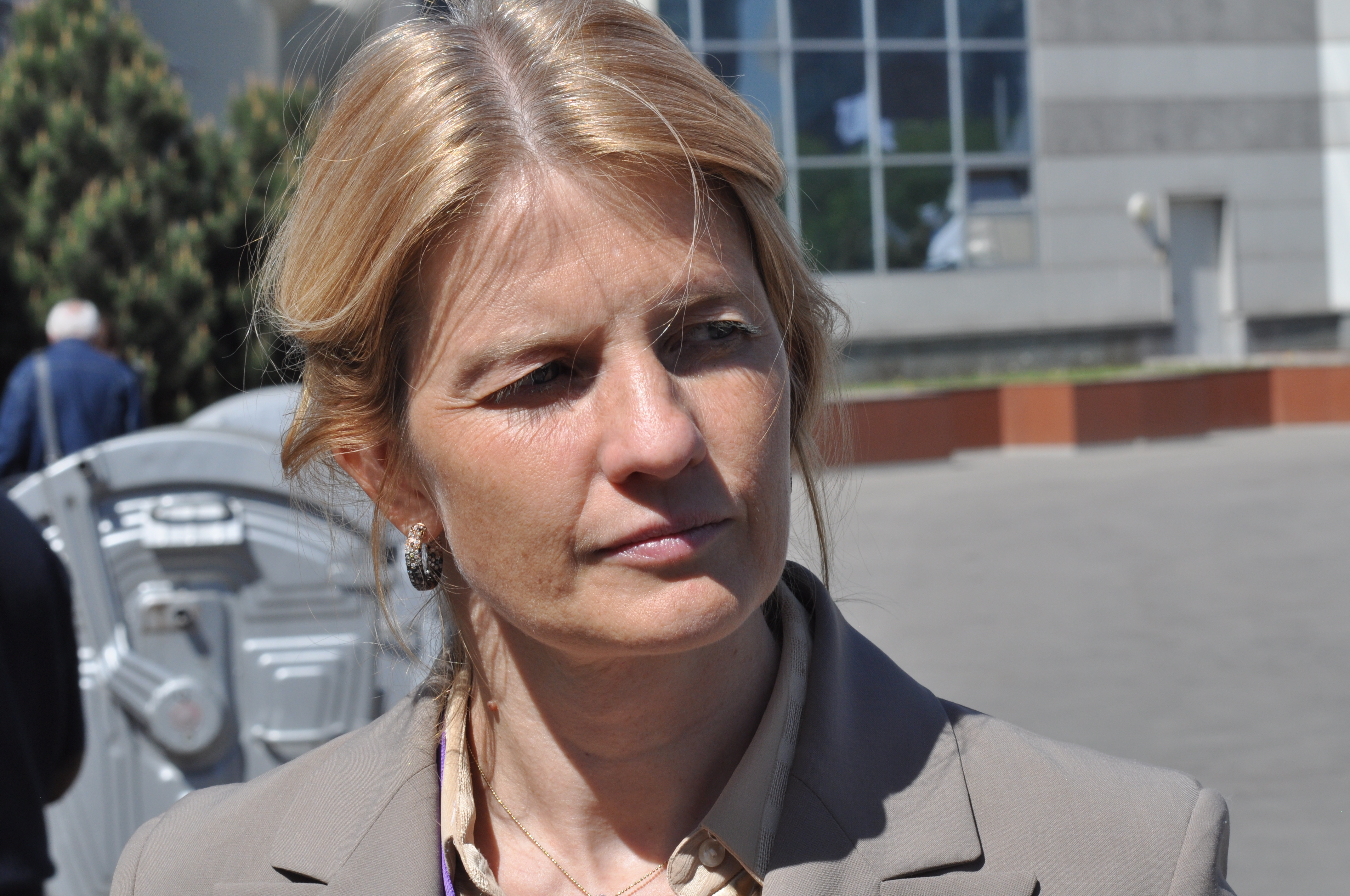 Russian IT person Natalia Kasperskaya depicted person: Natalia Kasperskaya (age: 45.26)